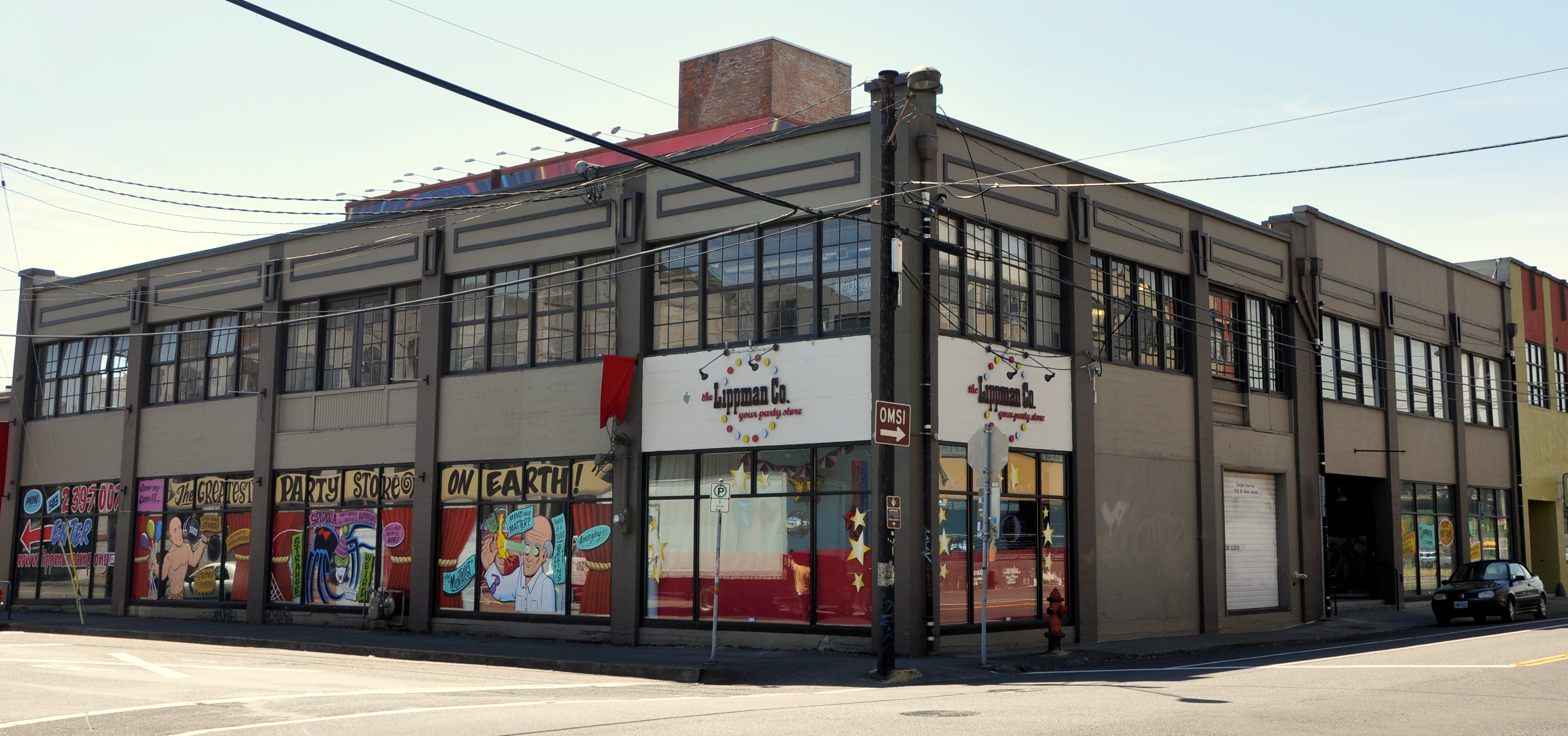 Enterprise Planing Mill and adjacent structure in Portland in the U.S. state of Oregon. The former mill, the grey structure on the left, is listed on the National Register of Historic Places.